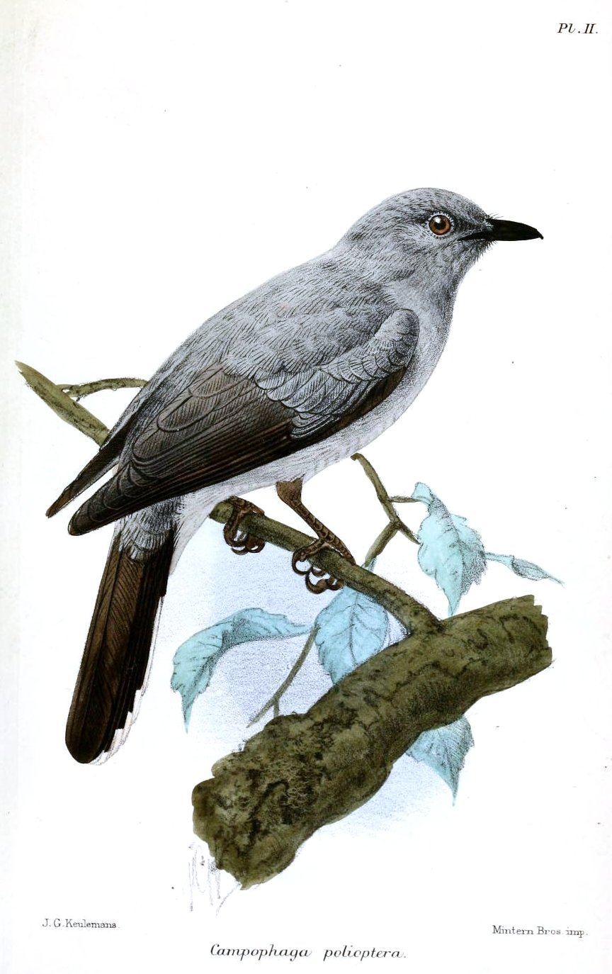 Campophaga polioptera = Coracina polioptera indochinensis, Cuckooshrike